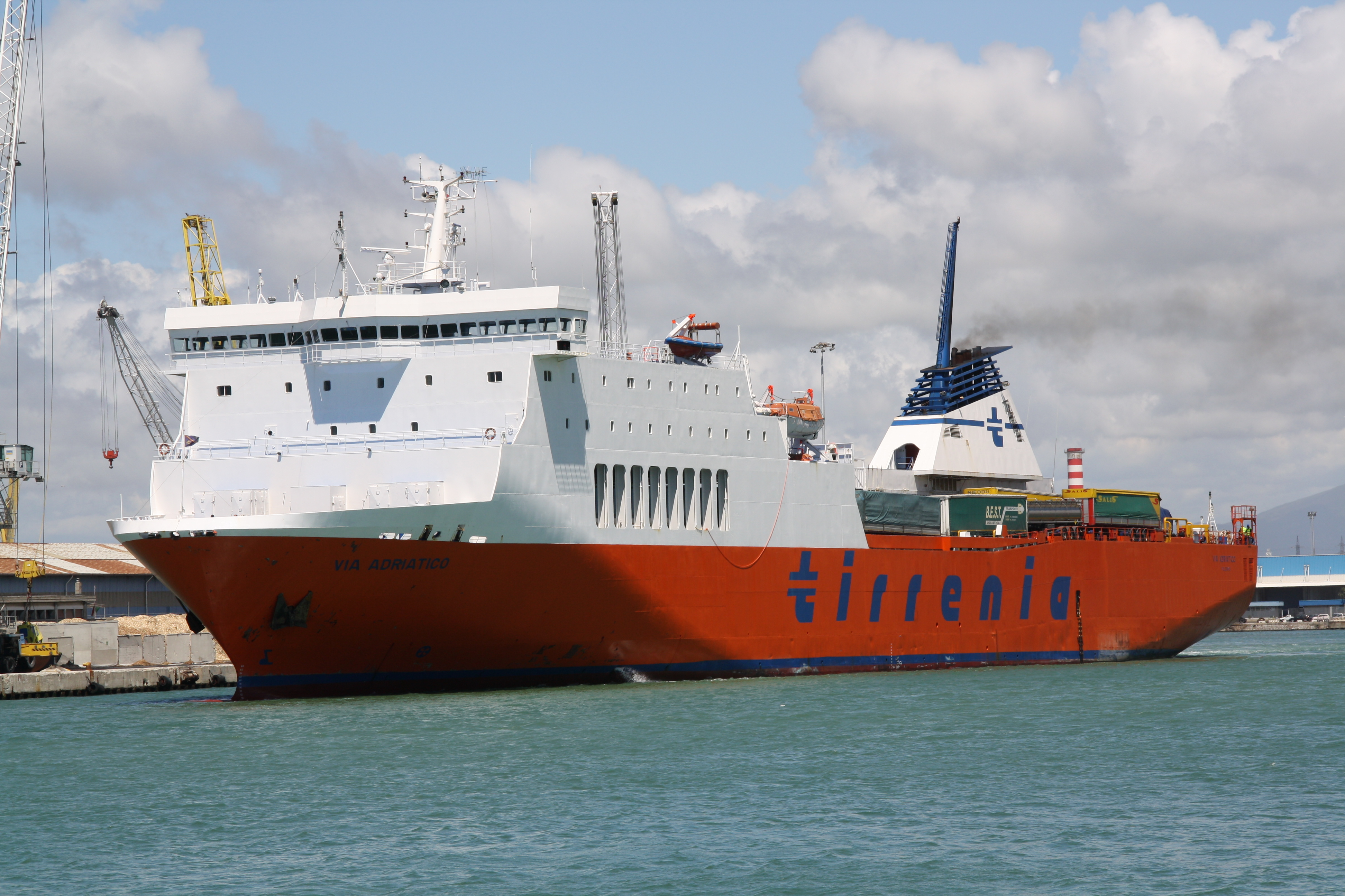 Italy Shipowner: Tirrenia Compagnia Italiana di Navigazione IMO: 9019066 MMSI: 247000400 Callsign:ICNL Type: roll-on/roll-off Year of construction: 1992 Shipyard:Ihc Offshore & Marine Krimpen Aan Den Ijssel, Netherlands Yard number: 958 Port of registry: Palermo Former name: Dead weight:5535 t Gross tonnage: 14398 t Length o.a.: ca. 150.43 m Breadth: ca. 23.43 m Draught: ca. 6.02 m Passengers: 72